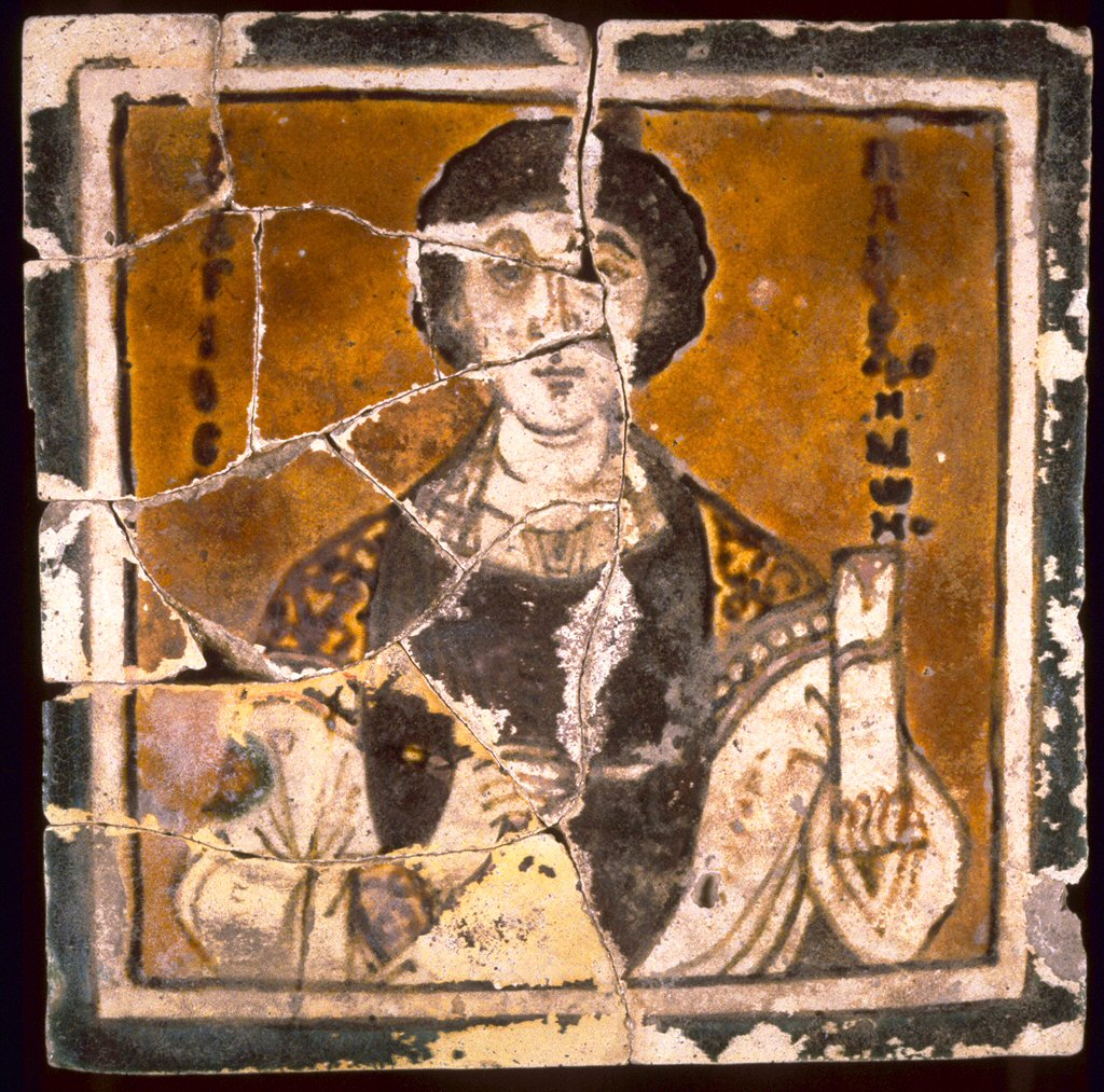 Panteleimon, a physician who became a saint through his great charity for the poor, miracles, and martyrdom, is shown here with a lancet in his right hand. This tile is one among three in the Walters Art Museum that have the same size and contain identical busts of male saints: the other two depict Saint Basil (inv. 48.2086.17) and Saint Arethas (inv. 48.2086.2). The series probably formed a frieze on a church wall or altar screen.